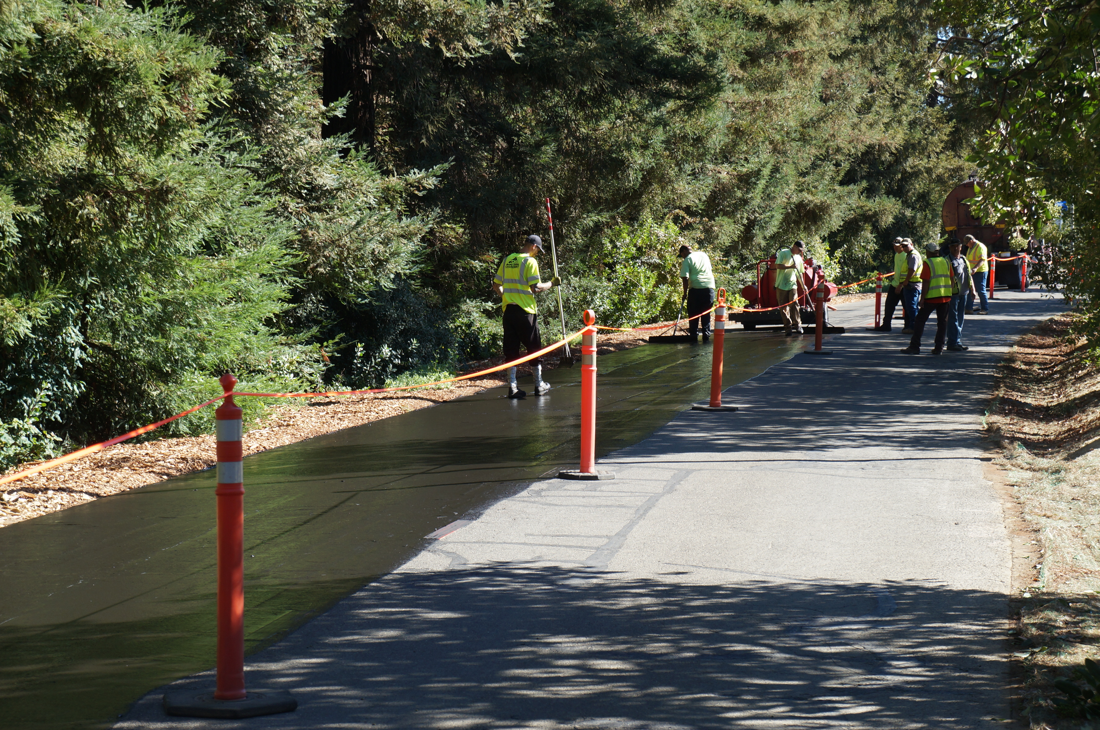 Crews work to sealcoat a road at the University of California/Davis. (Photo by U/C Davis Arboretum and Public Garden, courtesy of Oregon State University)